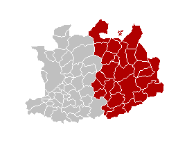 This map indicates (in red) the location of administrative and judicial arrondissements of Turnhout in the province of Antwerp, Belgium. Both maps are the same and fill all the province of Antwerp. In this case, a redirection is available at File:Judicial_Arrondissement_Turnhout_Belgium_Map.png for an easy and intuitive access to judicial arrondissement map.